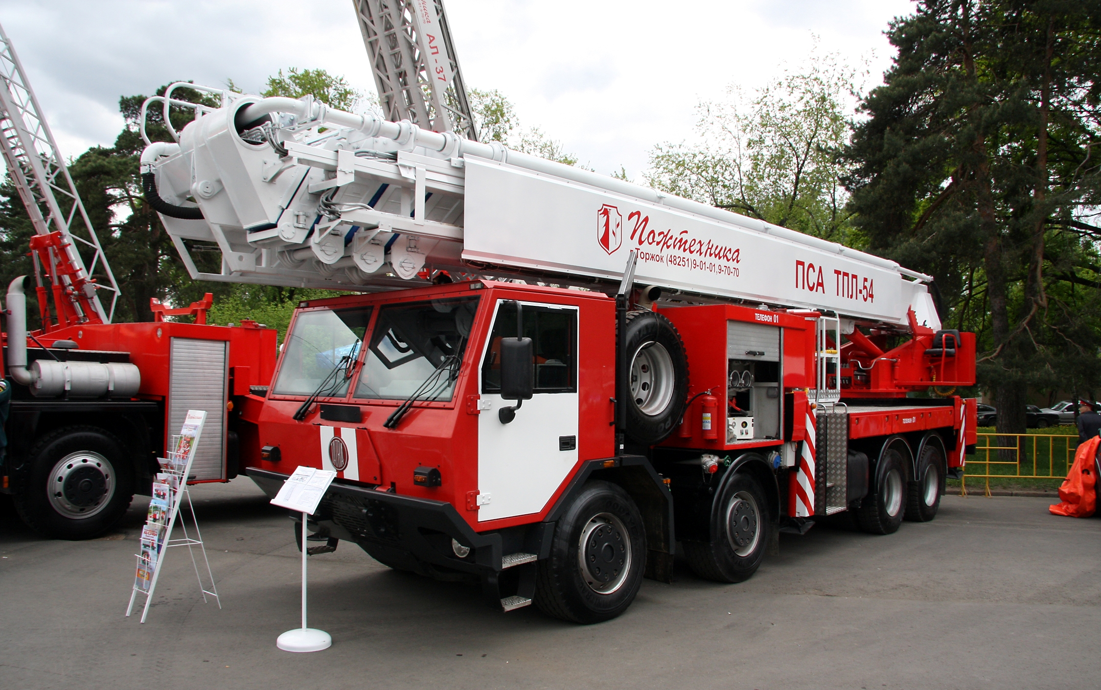 Fire truck with ladder PSA TPL-54 on Tatra-815-chassis at the Integrated Safety and Security Exhibition 2009.